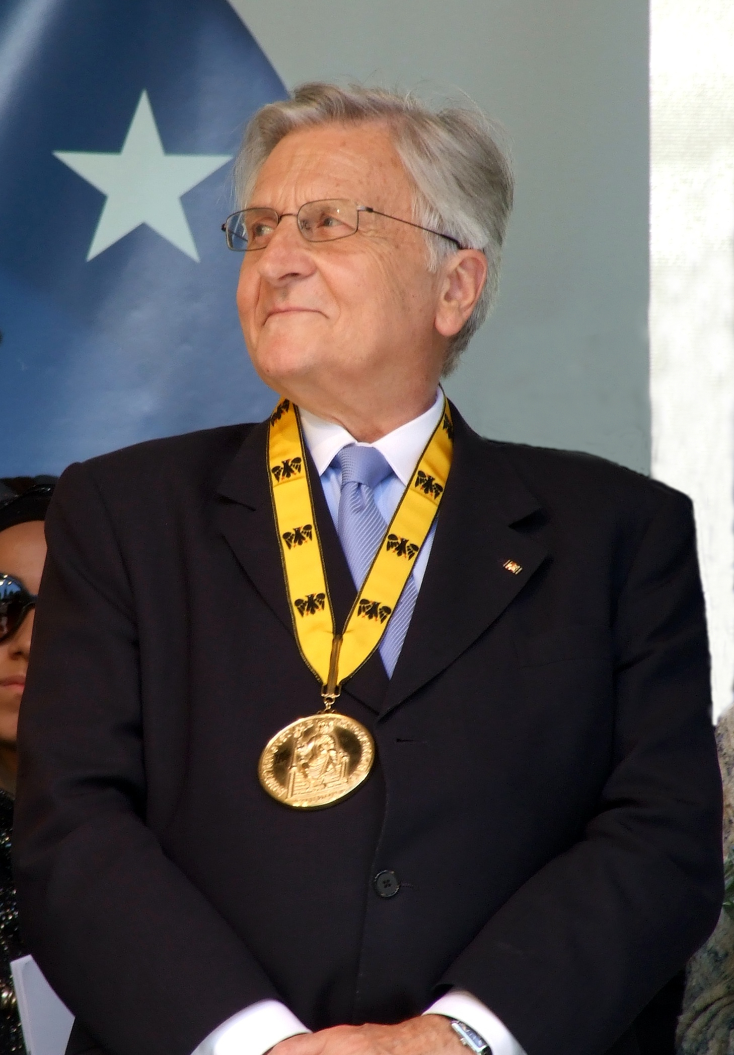 Jean-Claude Trichet at the Charlemagne Prize celebration 2011